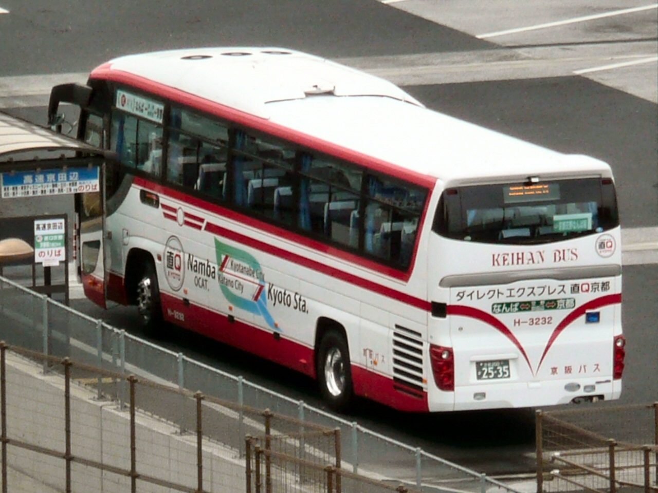 Express bus "Direct Express Chokkyu Kyoto Go" operated by Keihan Bus Co., Ltd. (Car No. H-3232)